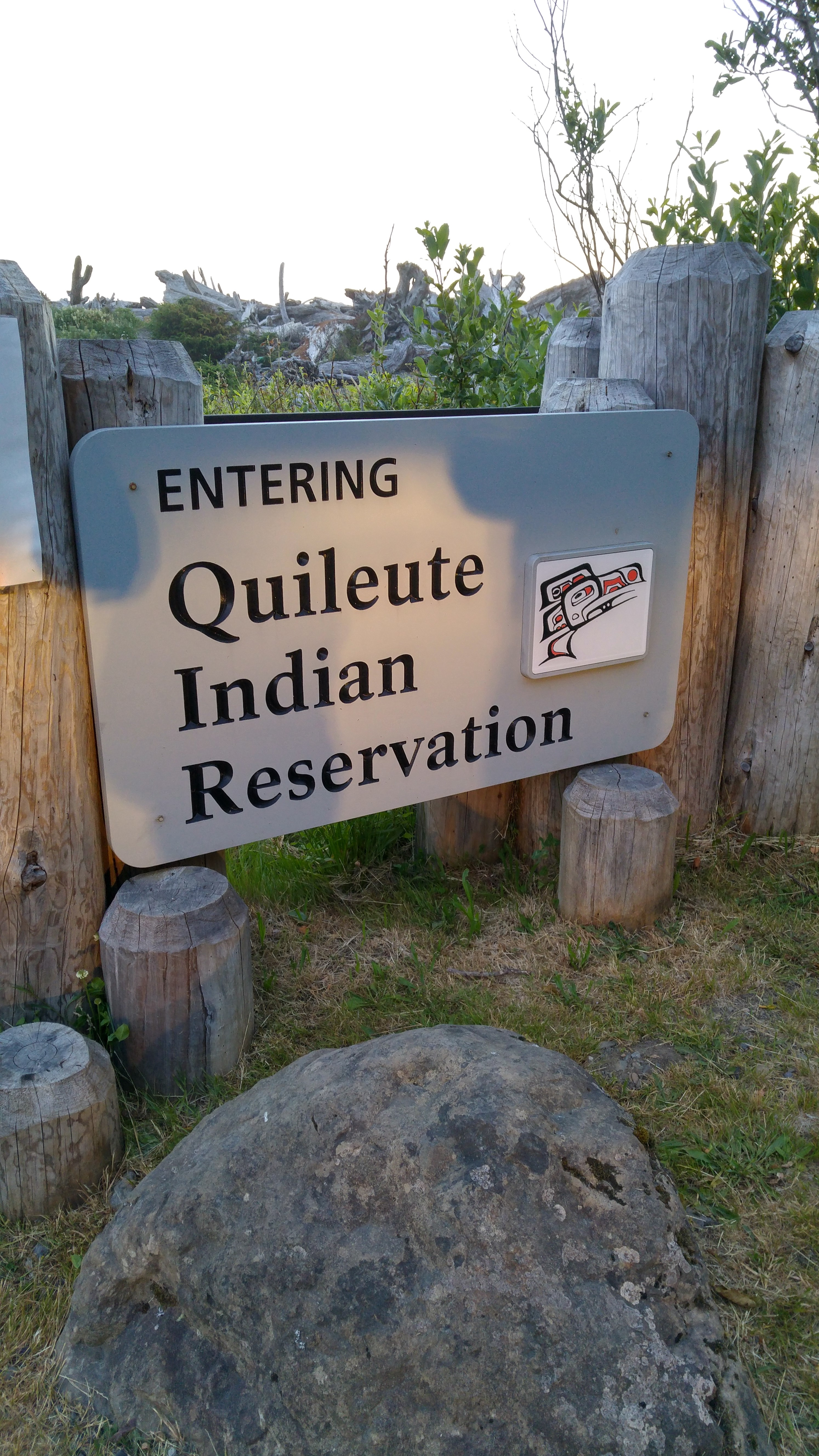 Reservation